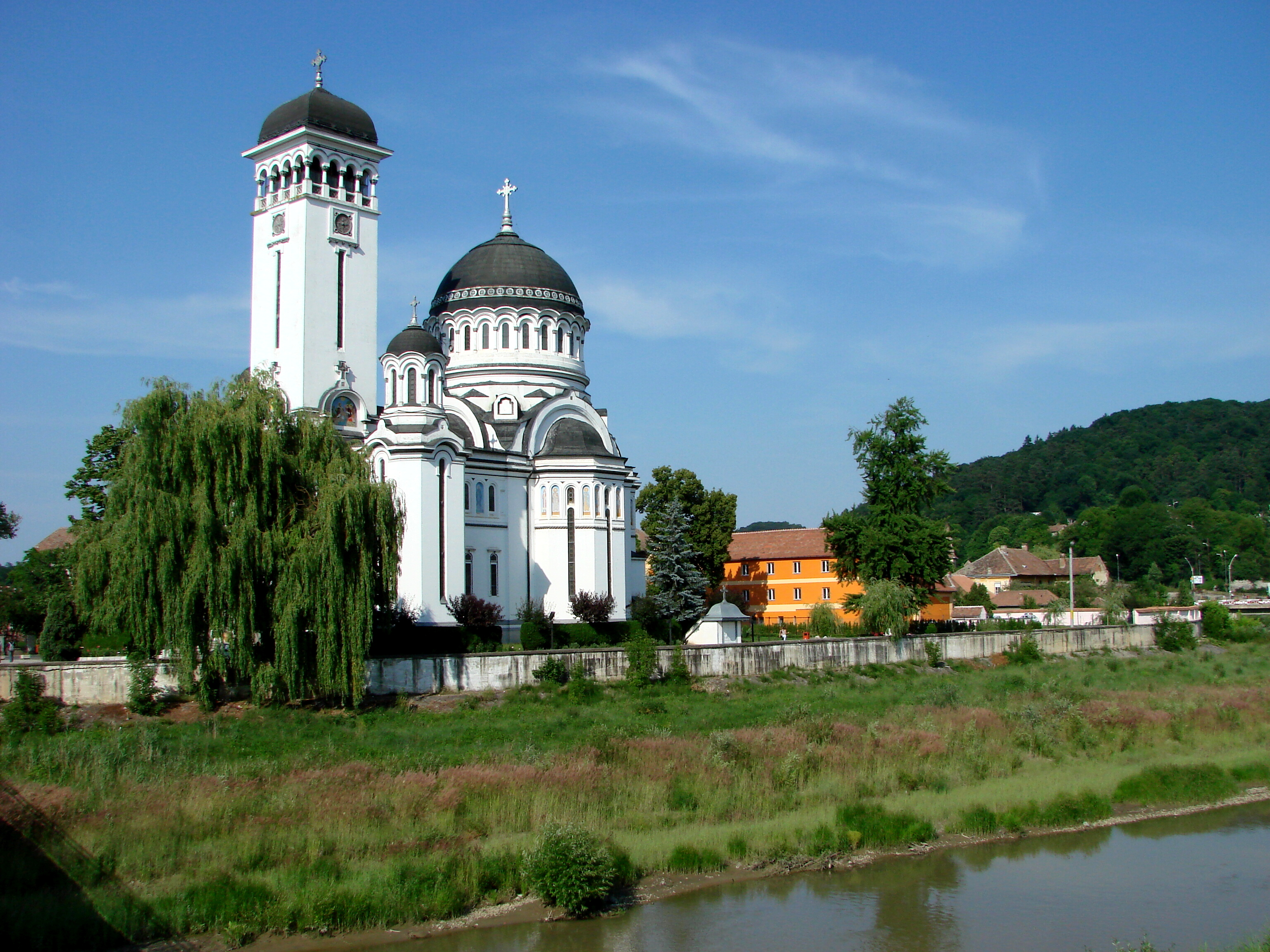 Church on the river, Sighisoara, Romania. June 2007.